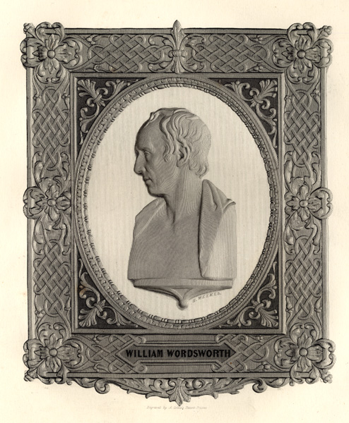 William Wordsworth, engraved mechanically by Achille Collas after a medallion by Henry Weekes, from the 1838 book The authors of England: A series of medallion portraits of modern literary characters, engraved from the works of British artists by Henry Fothergill Chorley